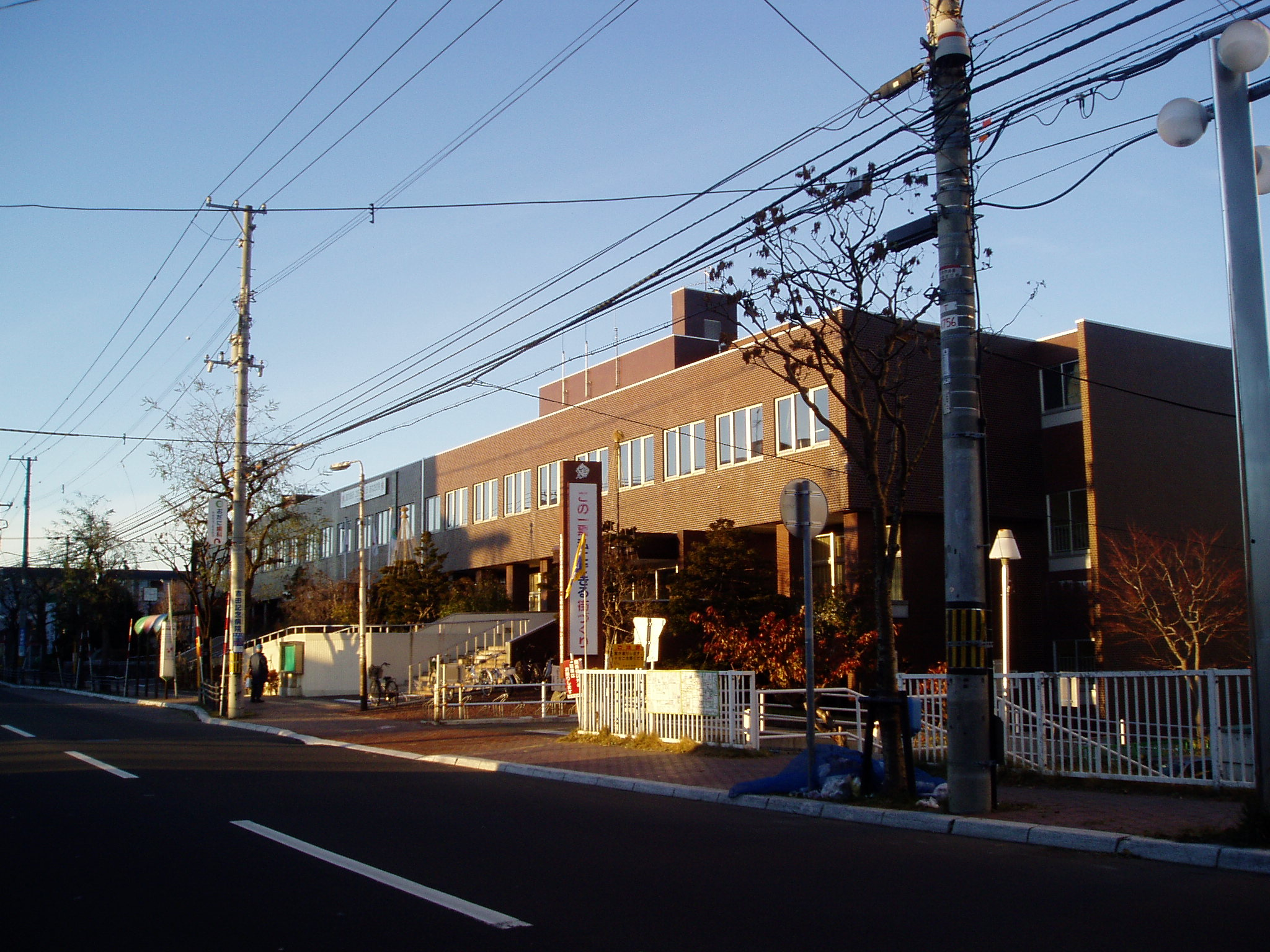 Shiroishi Ward Office in Sapporo City, Japan